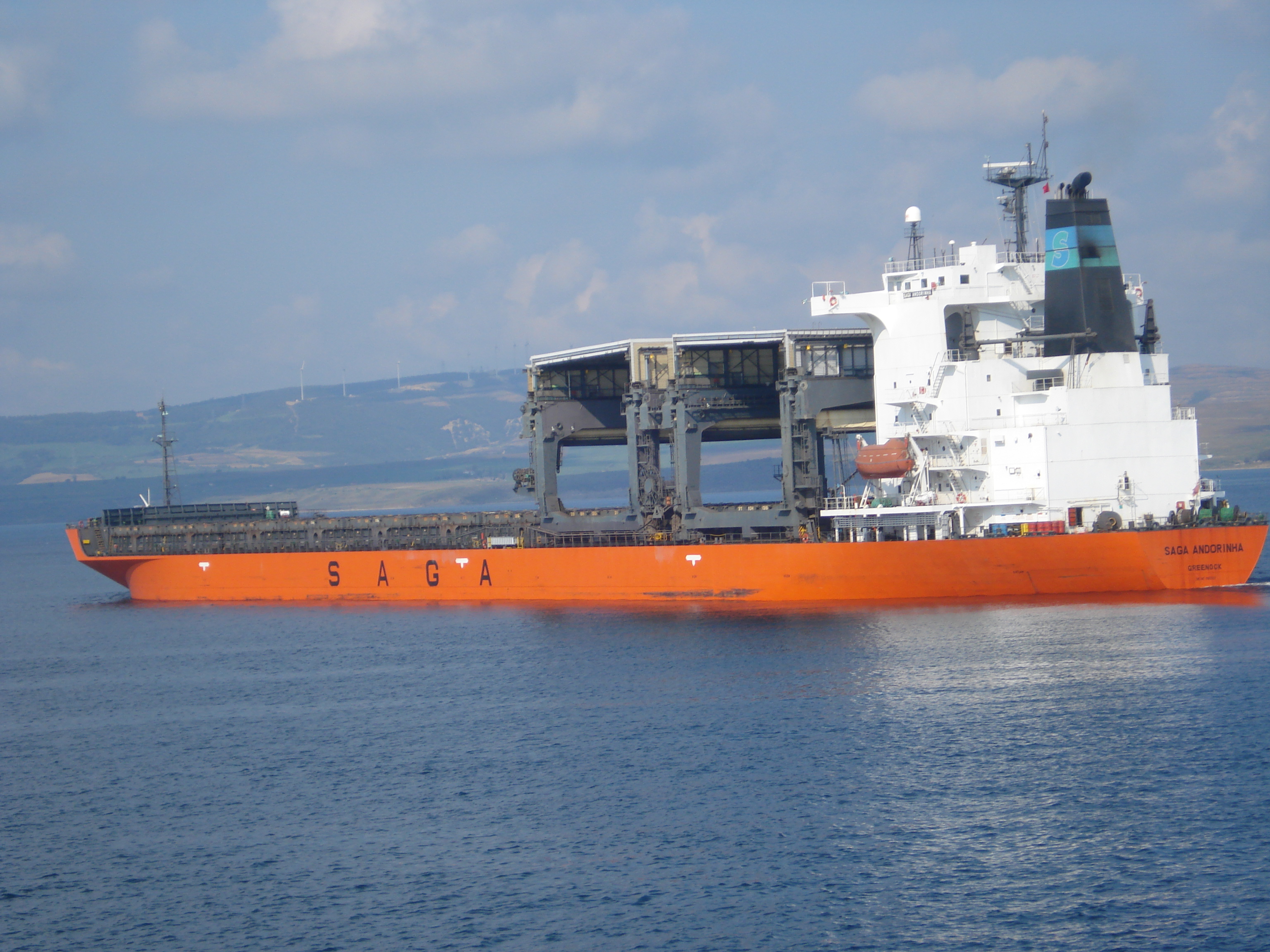 SAGA cargo ship on the Dardanelles.